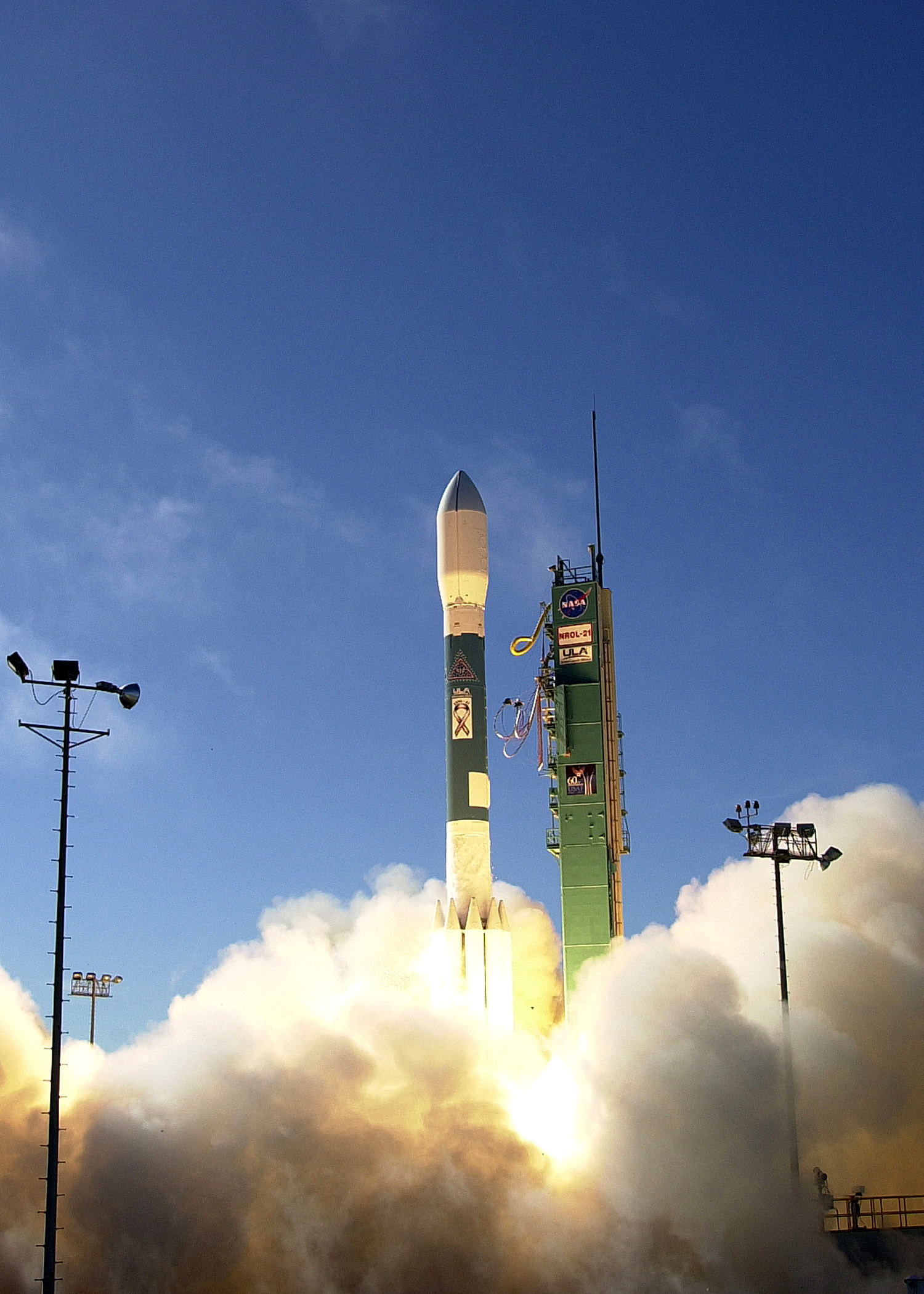 Vandenberg successfully launches Delta II A Delta II rocket carrying a National Reconnaissance Office satellite successfully launches Dec. 14, 2006 from Space Launch Complex-2 at Vandenberg Air Force Base, California.